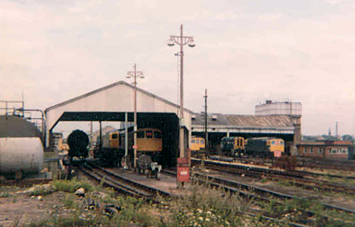 Hither Green TMD in August 1980, locos present 33050 33042 33037 33210 08374 08378